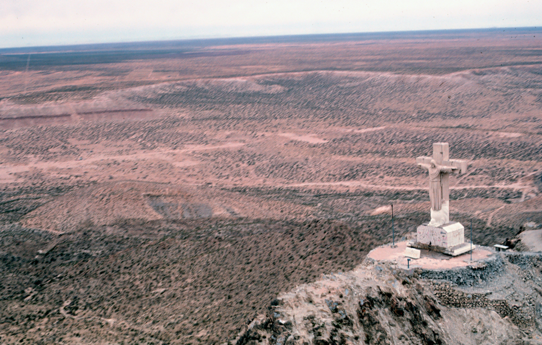 Statue of Christ the King along I-10 at Sunland Park, New Mexico. This statue was made by the sculptor Urbici Soler for the congregration of the San Jose del Rio Church at Smeltertown, New Mexico in 1939.